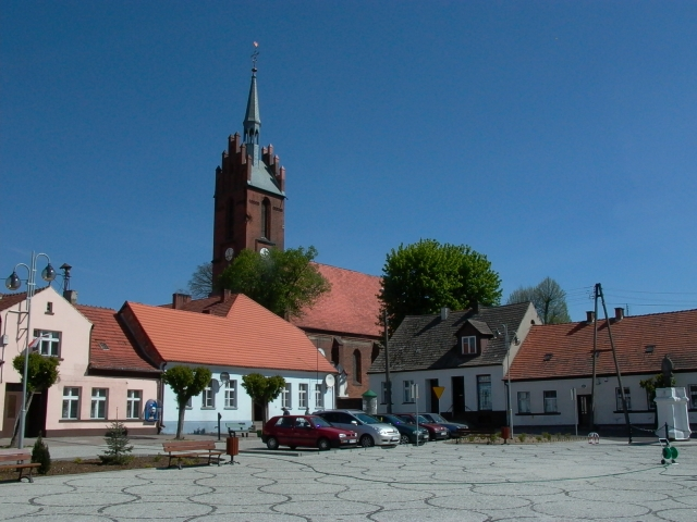 Church (XV cent.) and main square in Bledzew, Poland.